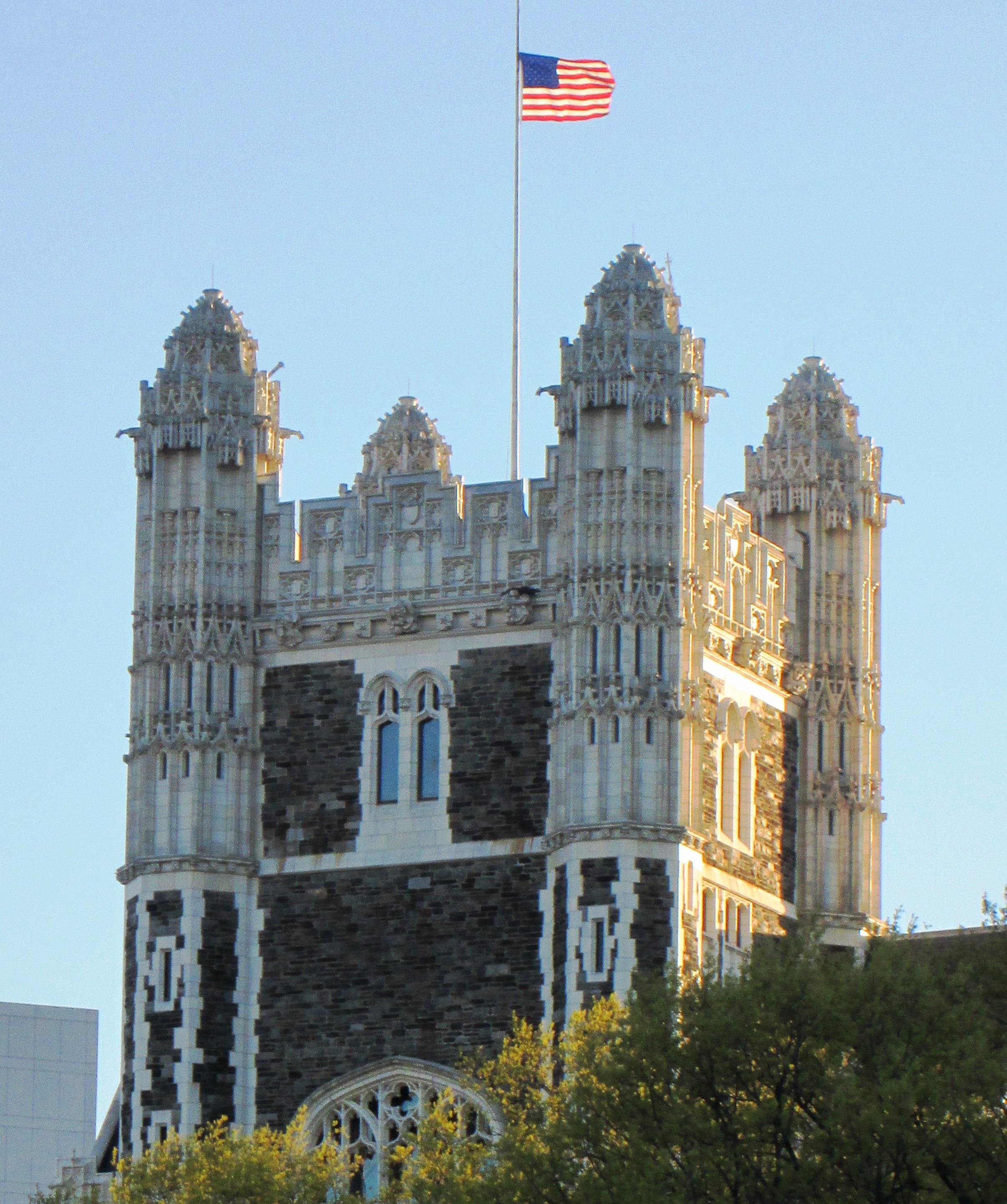 The top of the tower of Shephard Hall of the City College of New York as seen from St. Nicholas Avenue at West 140th Street in the Harlem neighborhood of Manhattan, New York City.